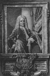 Portrait of Simon van Slingelandt (1664-1736)